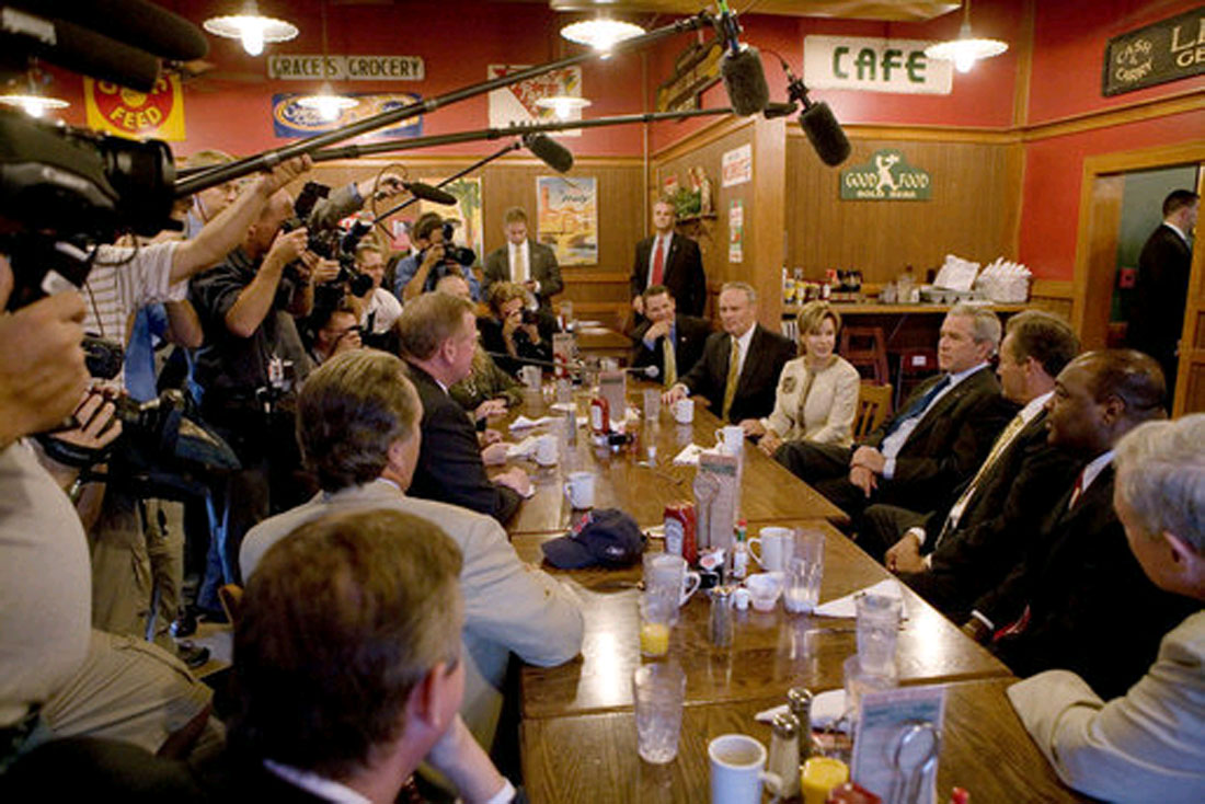 George W. Bush at Corner Cafe in Riverside on 2007-08-22 White House photo by Chris Greenberg